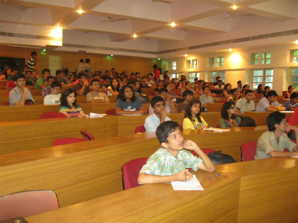 This photograph presents K.Venkataraman auditorium (Popularly known as Small Auditorium) at Institute of Chemical Technology.